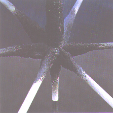 Thin-film instumescent Unitherm, applied to pipes, after fire exposure.